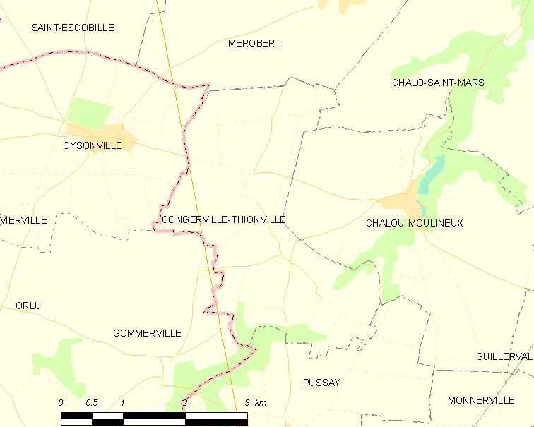 Map of French municipality Congerville-Thionville